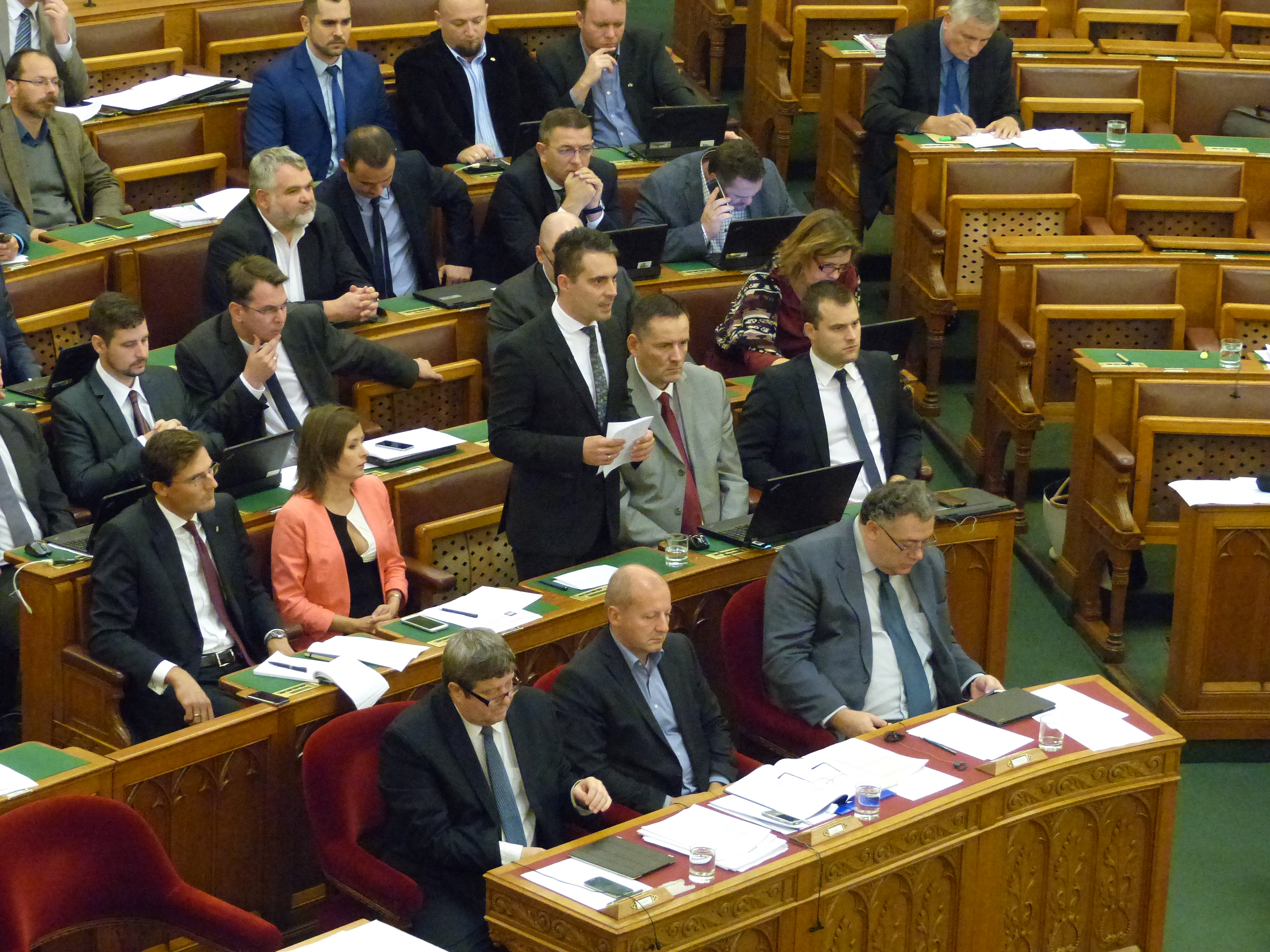 Vona Gábor (Jobbik). Taken on the 17th of October, 2016. Országház, Budapest, Hungary. General debate on the 7th Amendment of the Constitution of Hungary.